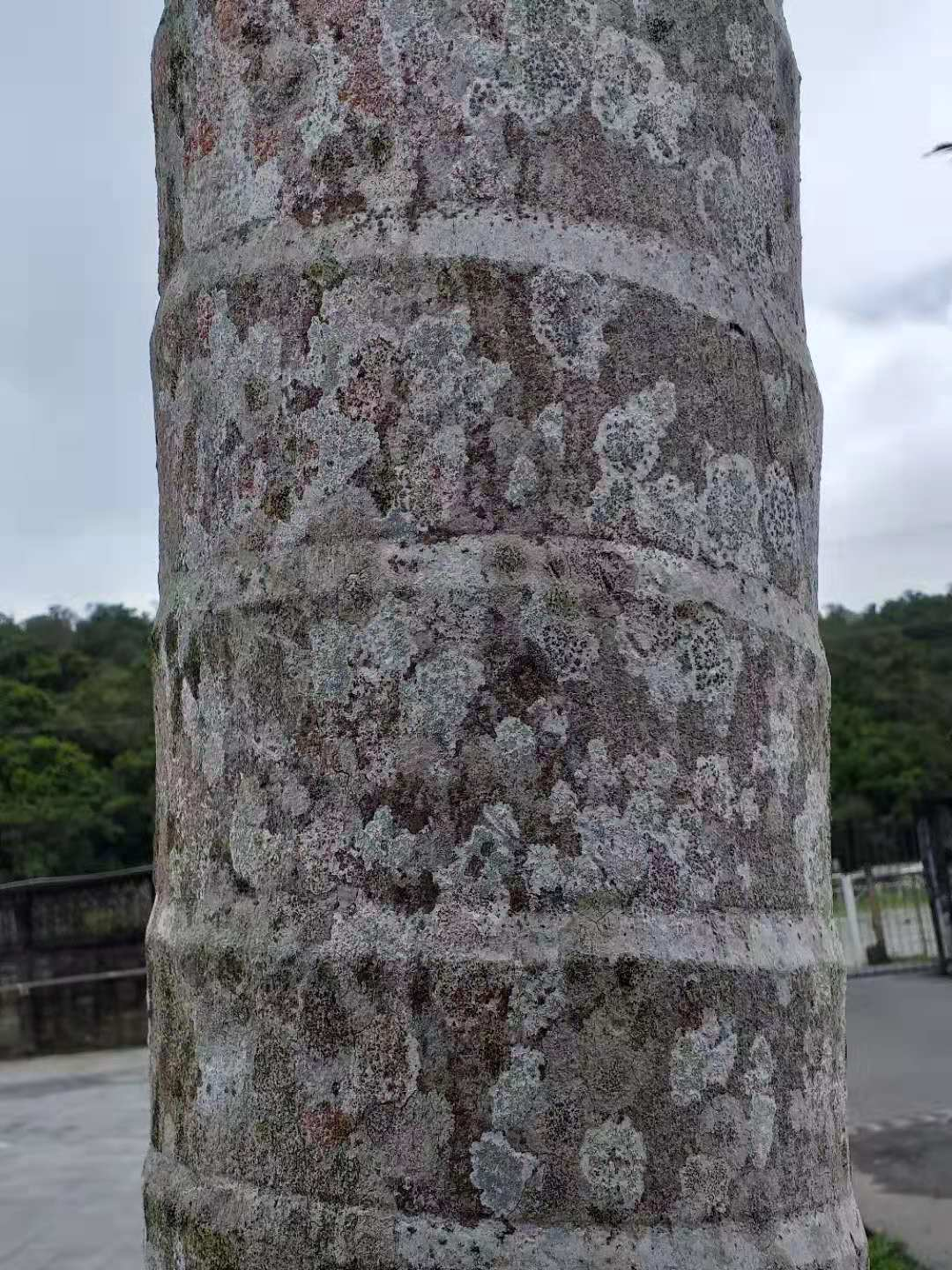 In fact, the trunk of Archontophoenix alexandrae is smooth to the touch. Jiaoxi, Yilan, Taiwan.